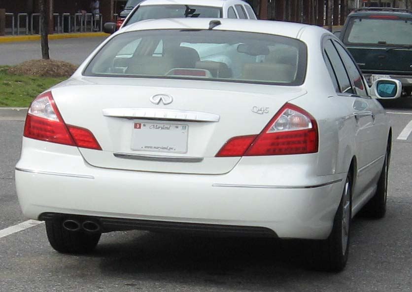 2005-2006 Infiniti Q45 photographed in USA.